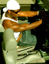 Andrew Ballen